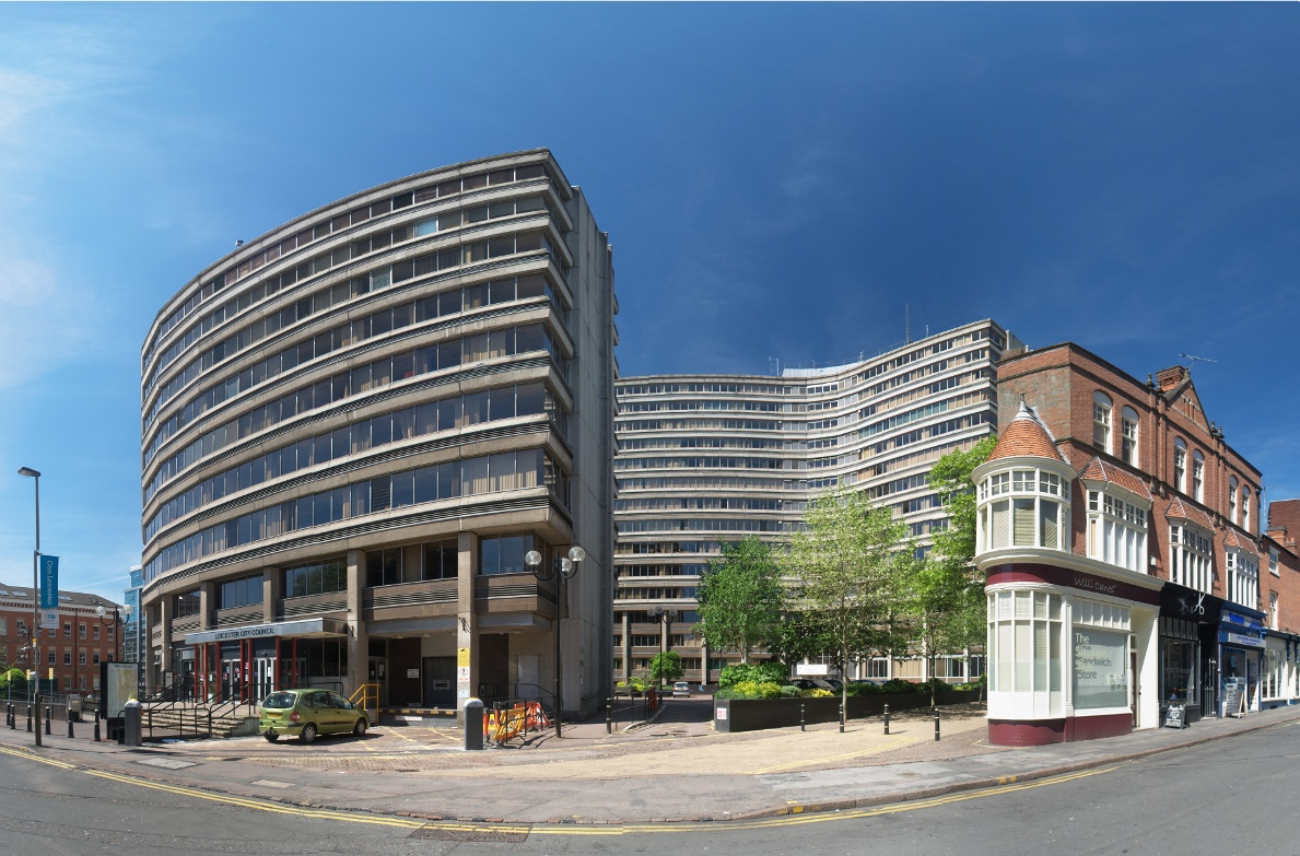 The New Walk Centre, headquarters of Leicester City Council in Leicester